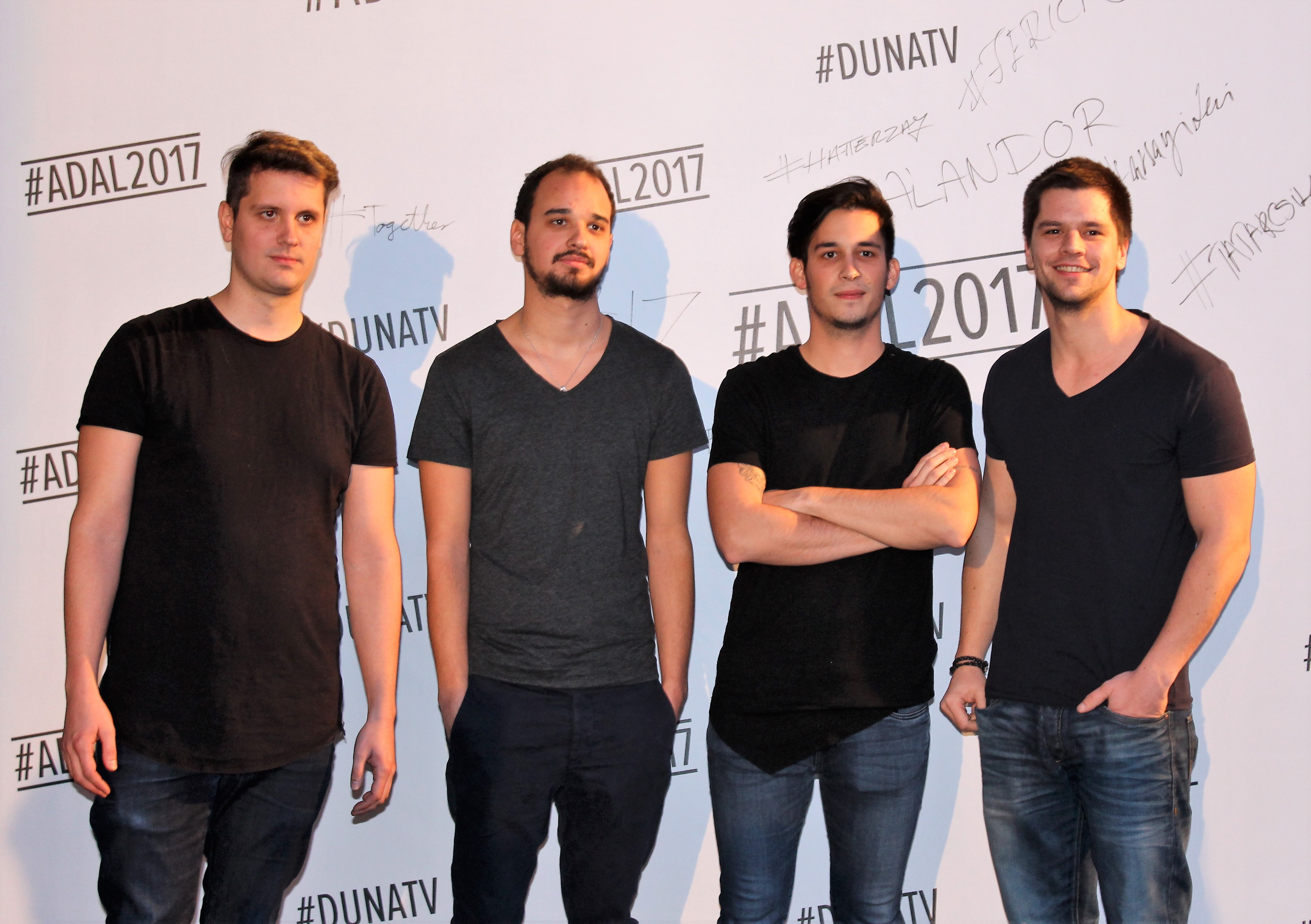 A Dal 2017 participant: Soulwave